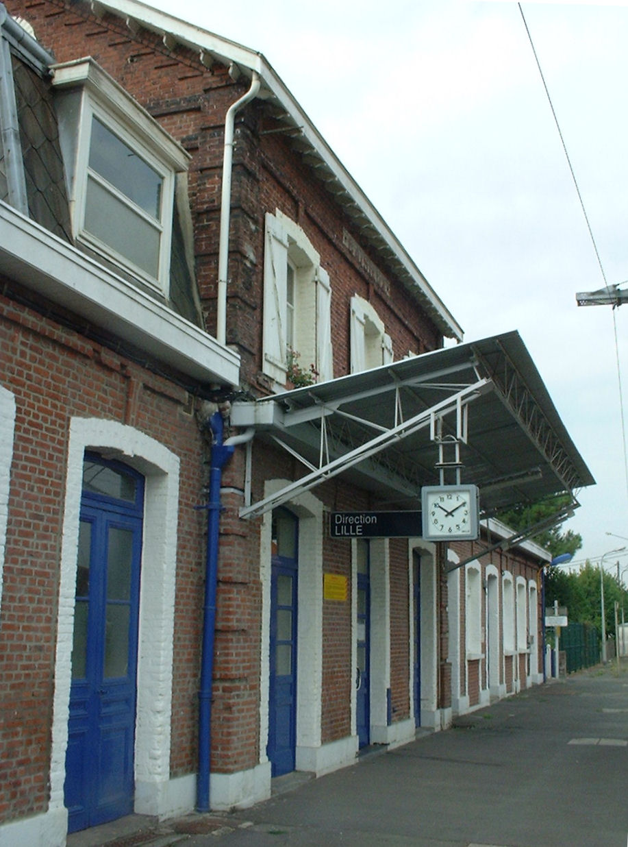 The station of the town of Baisieux in the departement du Nord